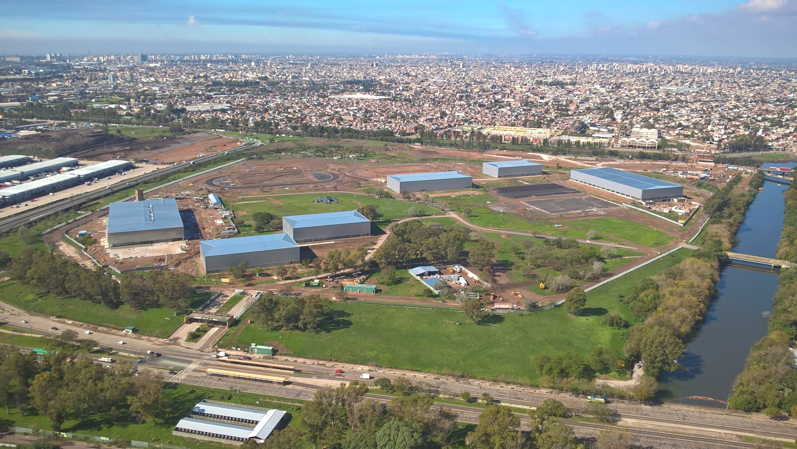 Vista aérea desde la torre del Parque de la Ciudad